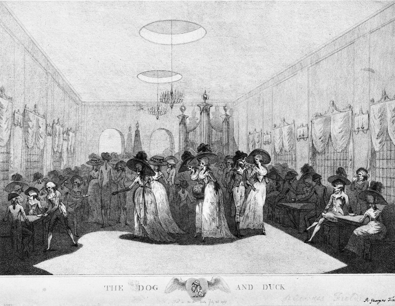 Elegantly attired ladies dance in their giant hats in the public rooms at the Dog & Duck on 25 July 1789, captured by an anonymous artist. Despite the writing looking like 1769 there are multiple sources saying 1789